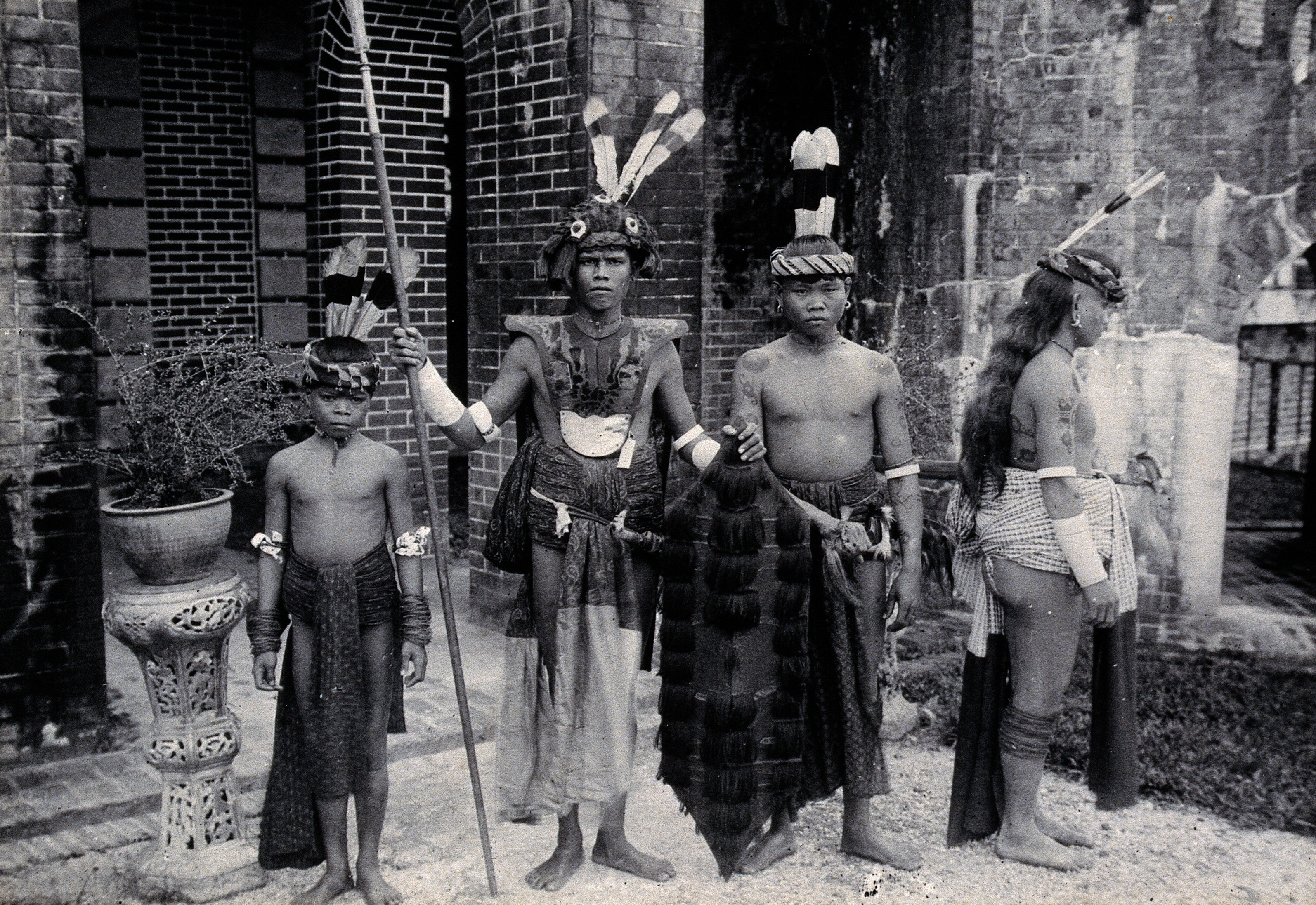 Sarawak: Sea Dayaks with weapons and head-dresses. Photograph. Iconographic Collections Keywords: Tribe; Population Groups; Borneo; Tribal; Charles Hose; saraksethnology - malaysia; dayak (indonesian people); Anthropology; Malaysia; Ethnography; tribes; platinum photoprints